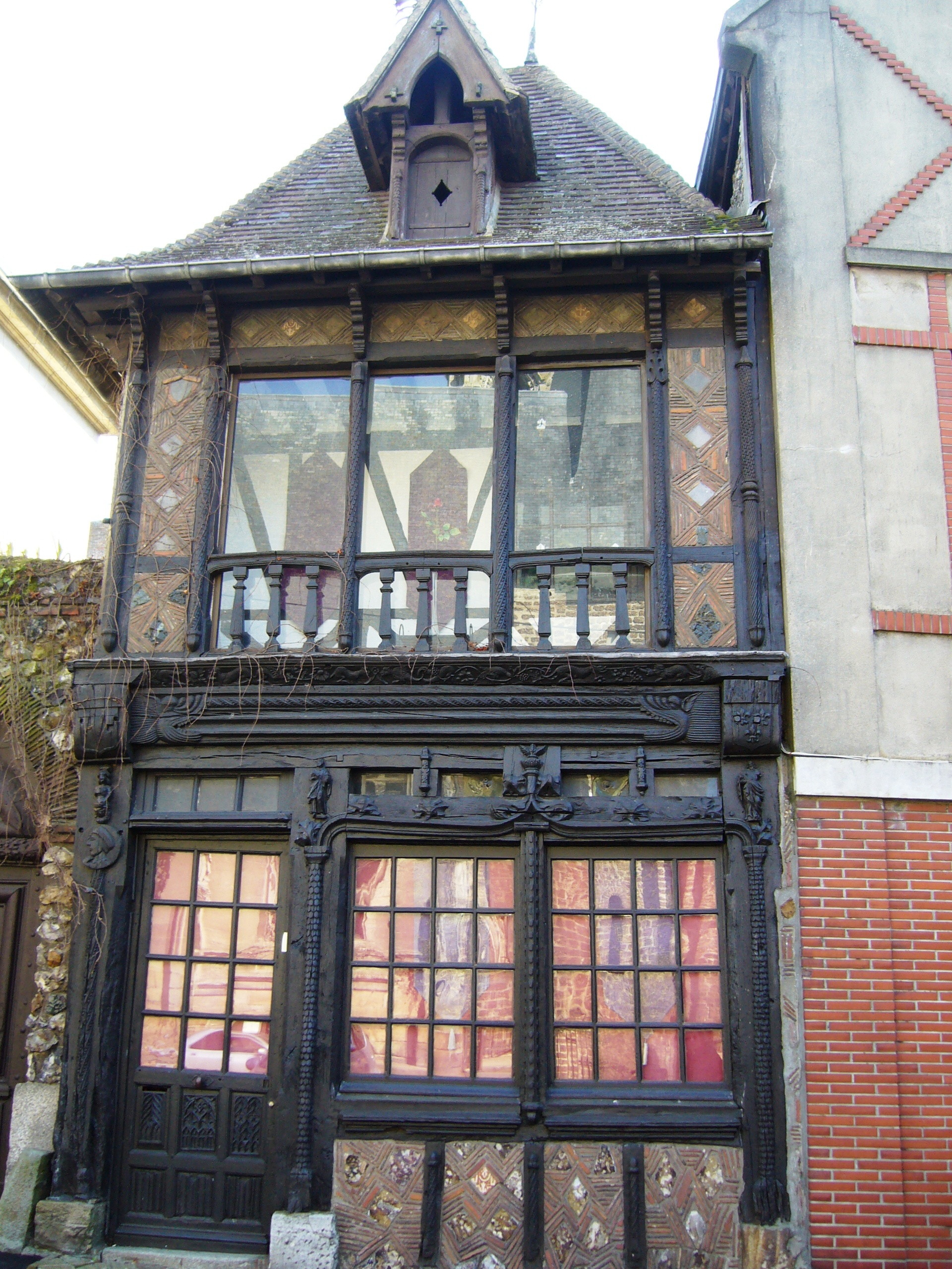 Former shop in L'Aigle (Orne, Basse-Normandie, France).